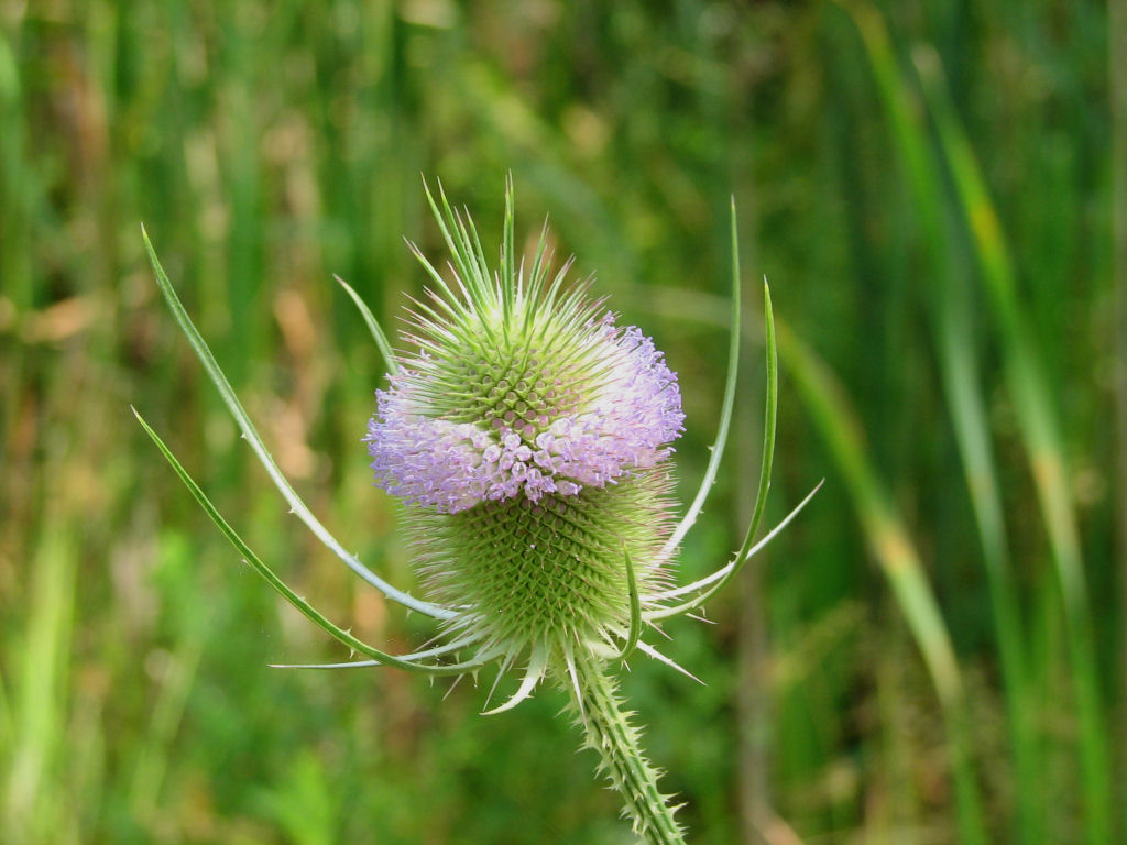 Flowers of the Fuller's Teasel (Dipsacus fullonum), Ottawa, Ontario, Canada